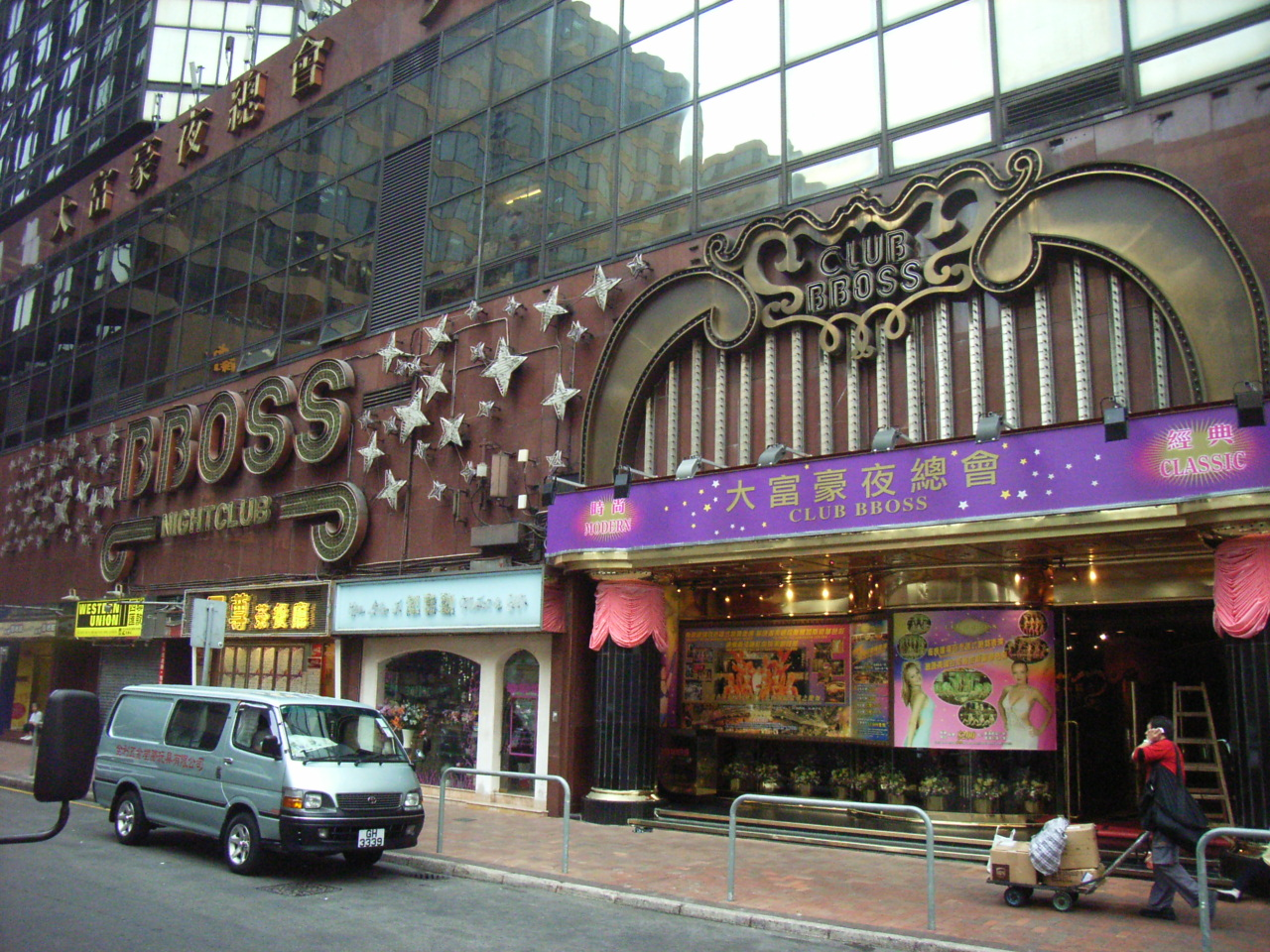 尖沙咀東近zh:新文華中心及zh:科學館道及zh:尖東碼頭之間的建築物. Photo created by User:OLAMB.